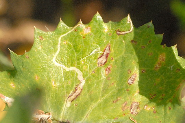 Chromatomyia horticola from Commanster, Belgian High Ardennes .